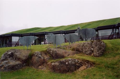 Photo by Jacob Sparre Andersen, 2003-08. The outside of Norðurlandahúsið in Tórshavn, The Faroe Islands.